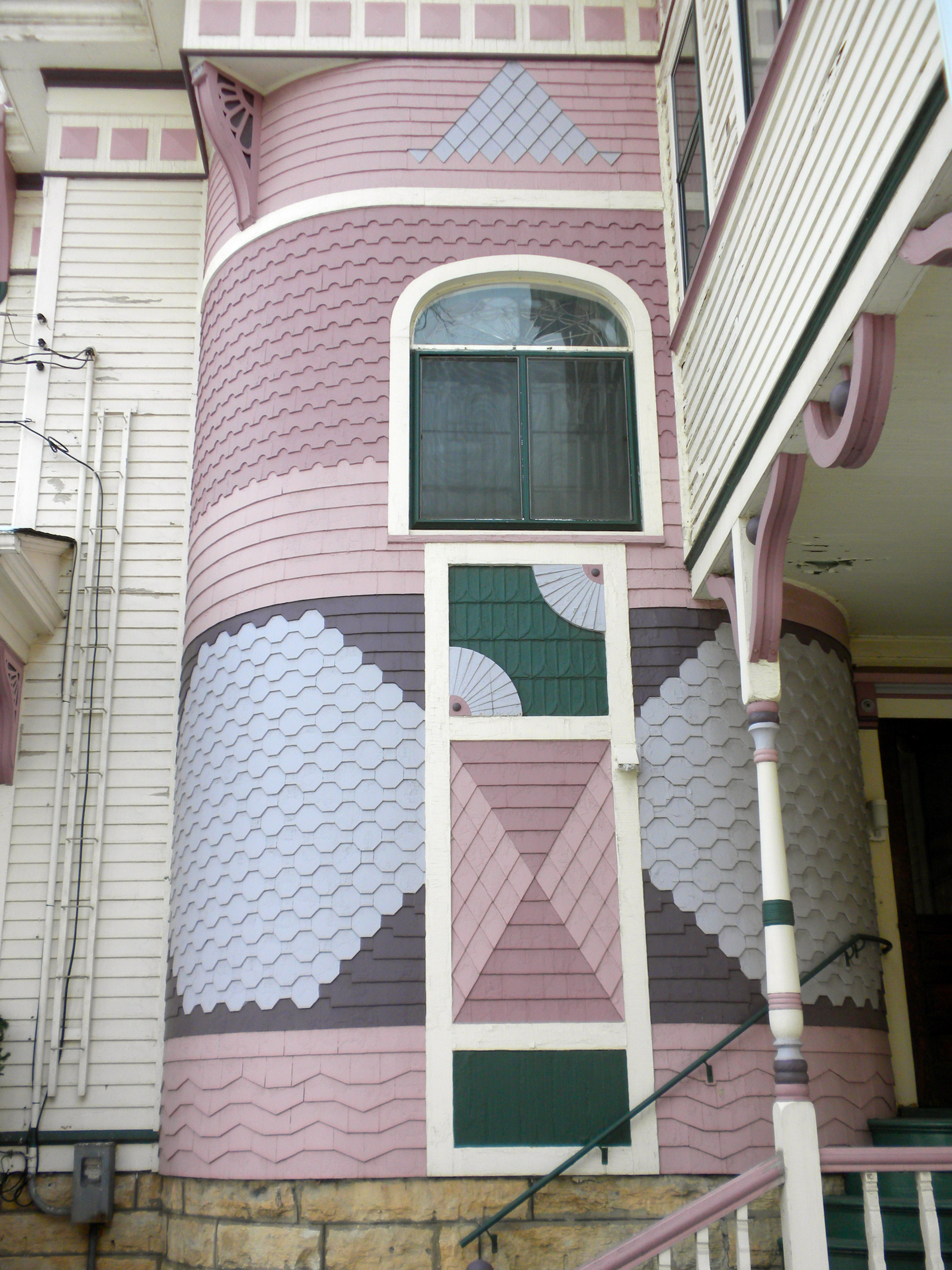 Ora Pelton House. On NRHP sinceAugust 12, 1982 214 S. State St., Elgin, Illinois on bluff above west side of Fox River. Very victorian house. This is a detail, probably a stairwell